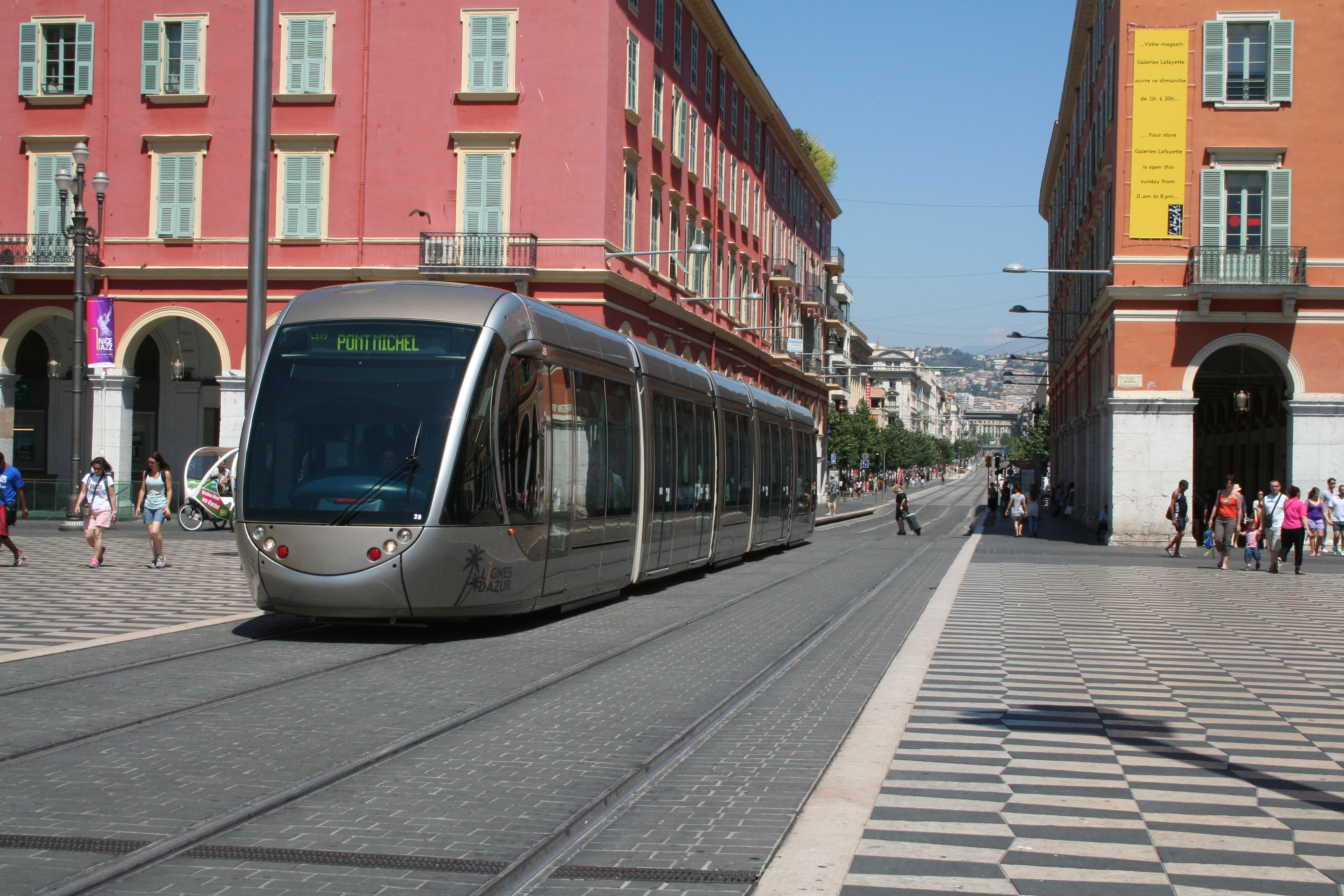 Nice tram car 28 on place Masséna